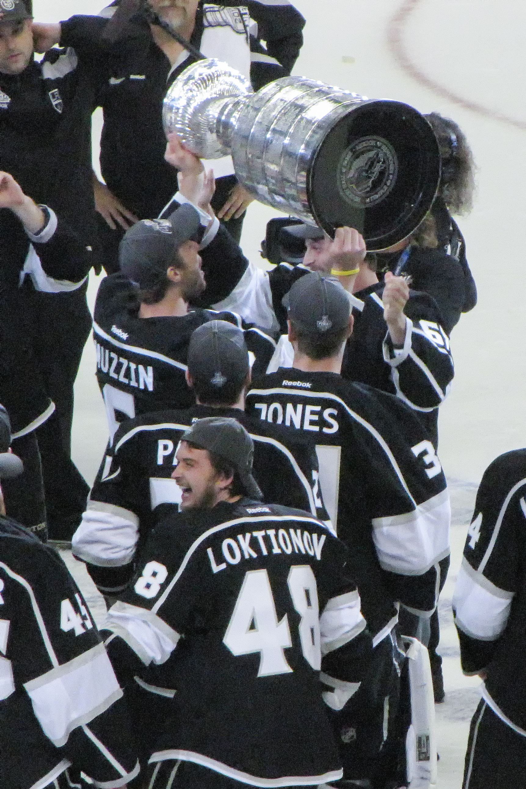 Played with the AHL Manchester Monarchs. During the Kings' playoff run he was a " black ace ". In April 2013 the Kings posted a nice video about receiving The Stanley Cup